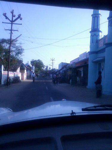 A main one of the streets of Kulasekharapatnam